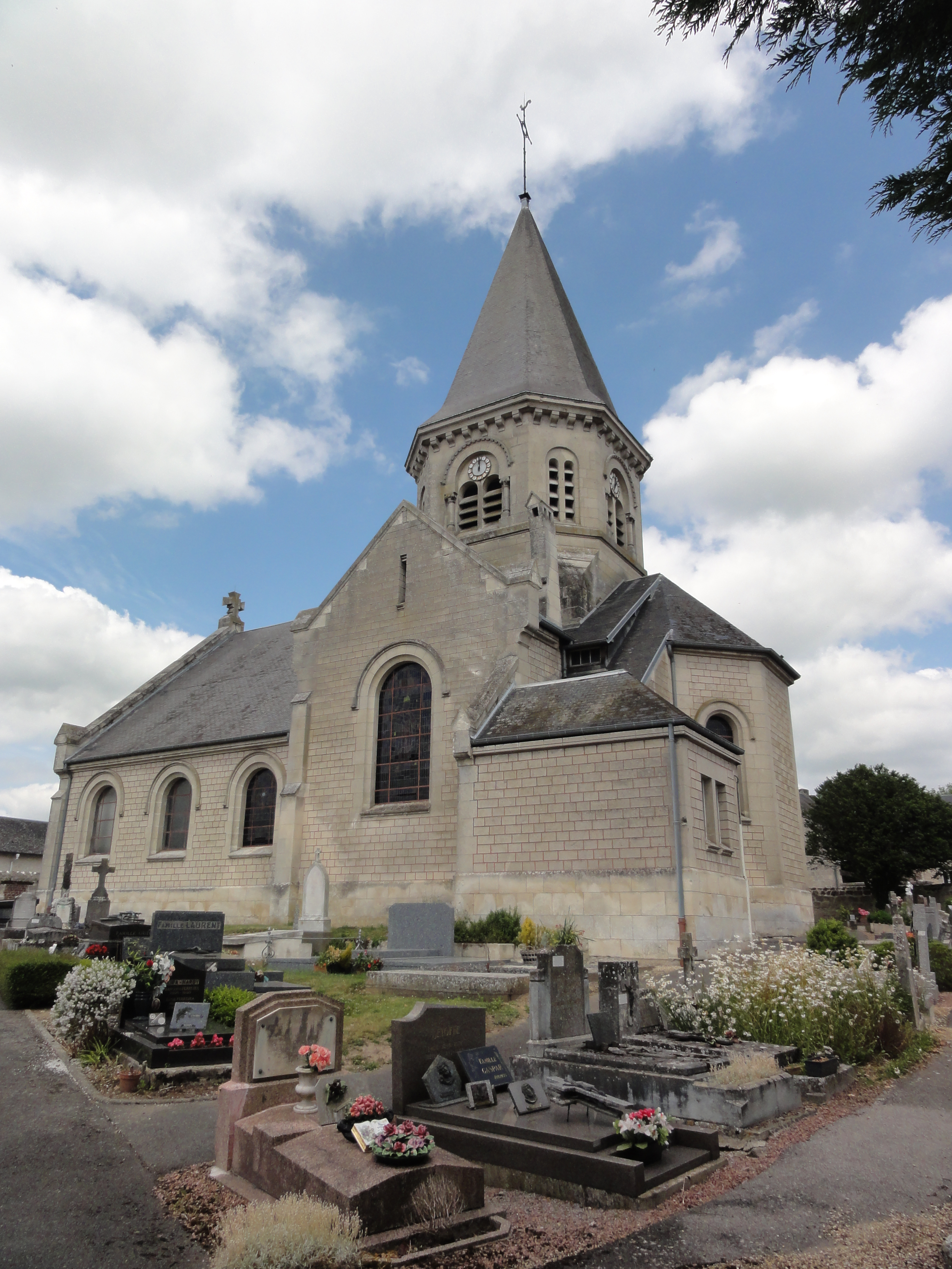 Juvigny (Aisne) église Saint-Juvin